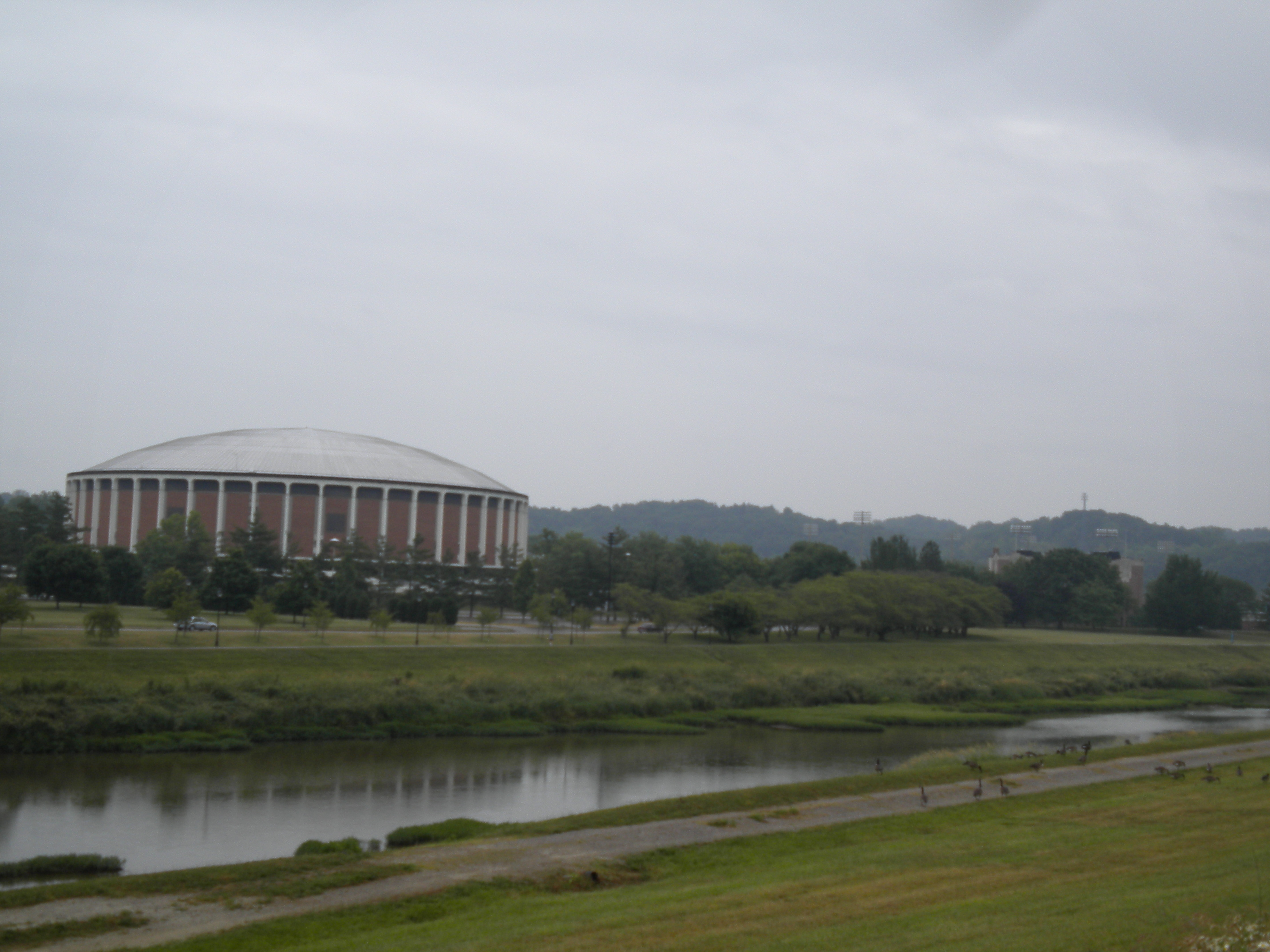 The Hocking River Valley in Athens